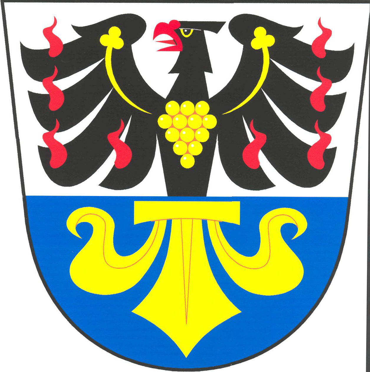 Municipal coat of arms of Dřetovice village, Kladno District, Czech Republic.